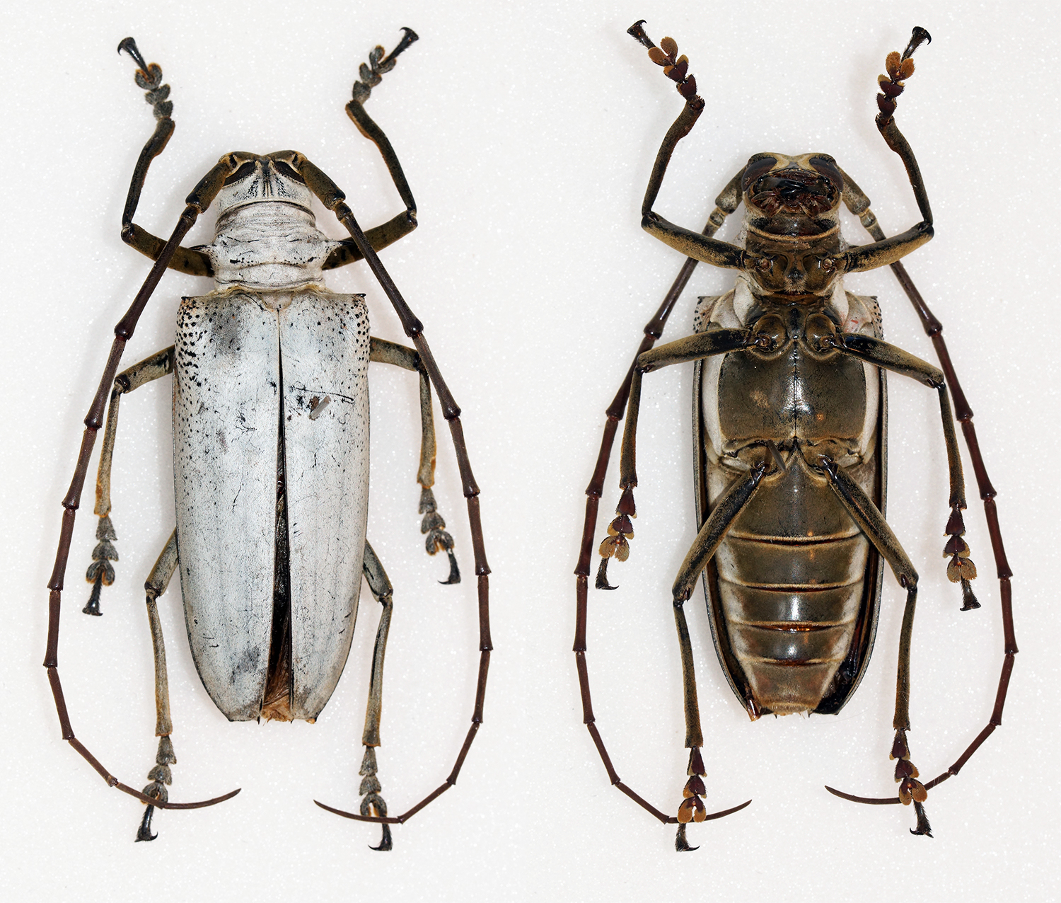 Fairmaire,1883 Sex: Female Data: 14-02-10 - Maramasike Island - Solomon Islands Size: 55mm